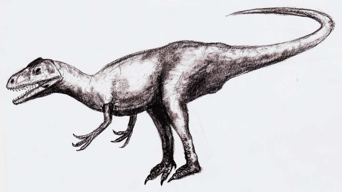 Bahariasaurus, a giant Noasaurid from the late Cretaceous of Africa that could be identical with Deltadromaeus